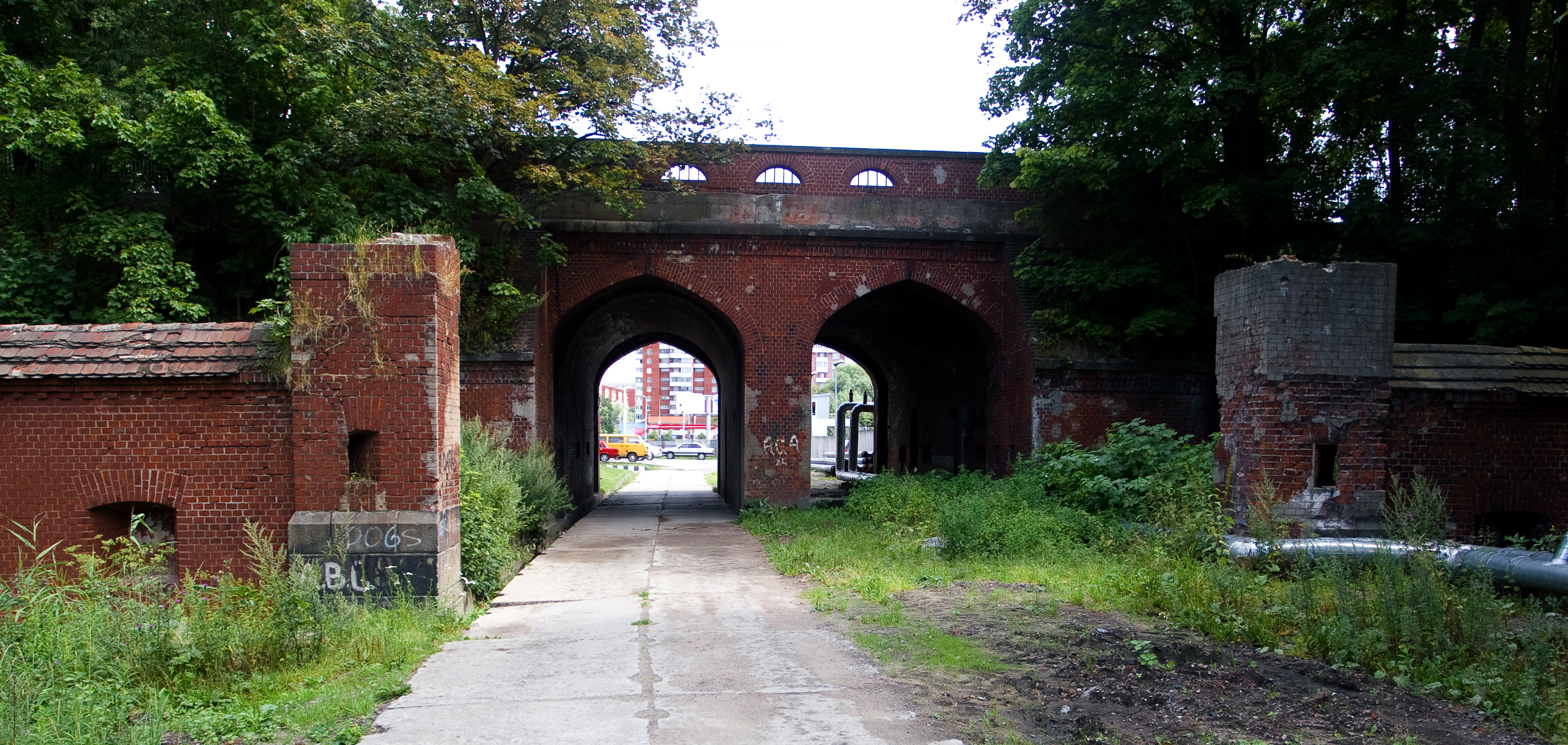 "Railway Gates" of Koenisberg